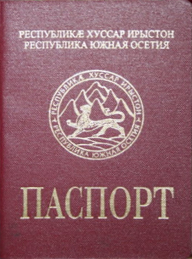 Cover of a non-biometric passport issued by South Ossetia, a de facto sovereign state in the South Caucasus recognized by most countries as a part of Georgia